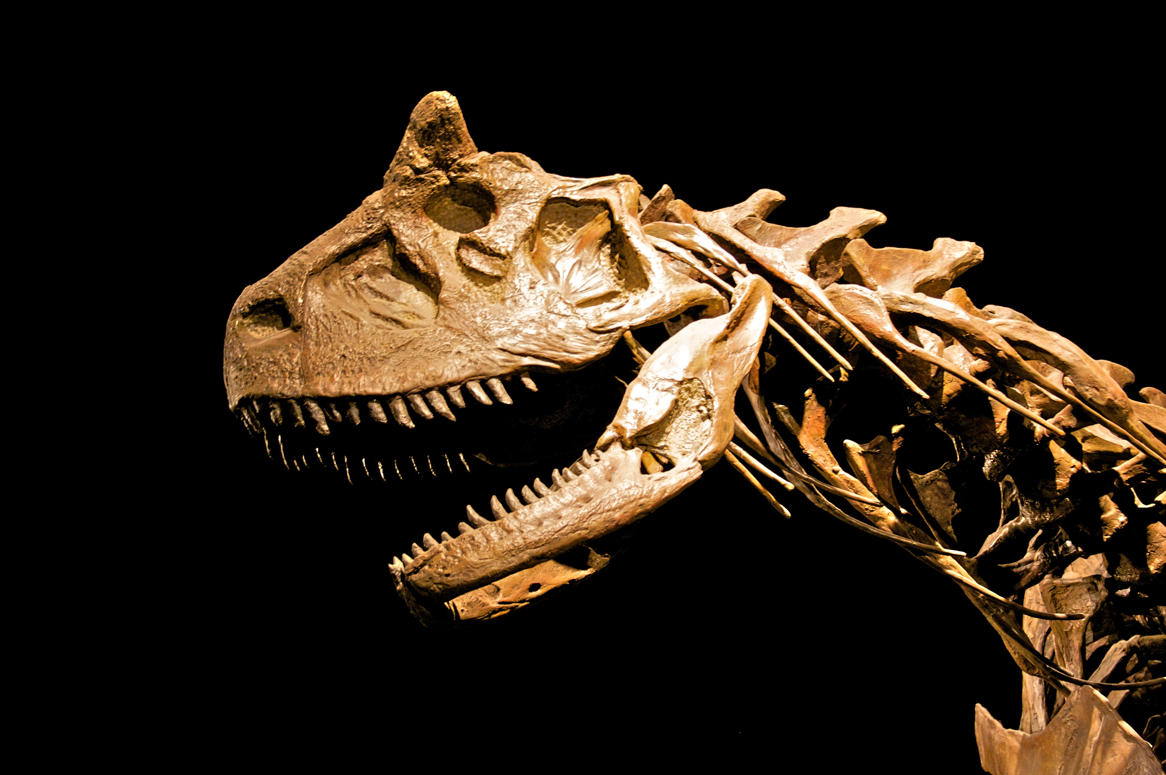 At the LA Natural History museum.